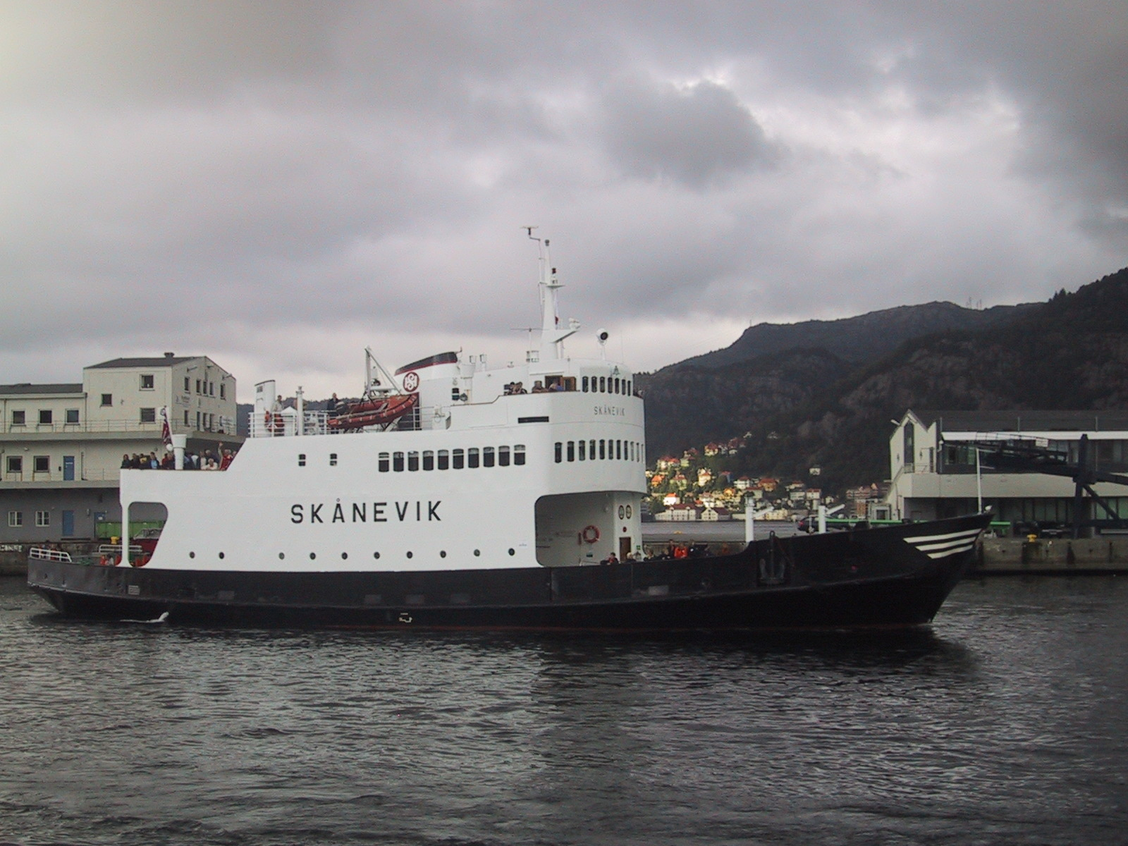 Skånevik is arriving Bergen in 2005